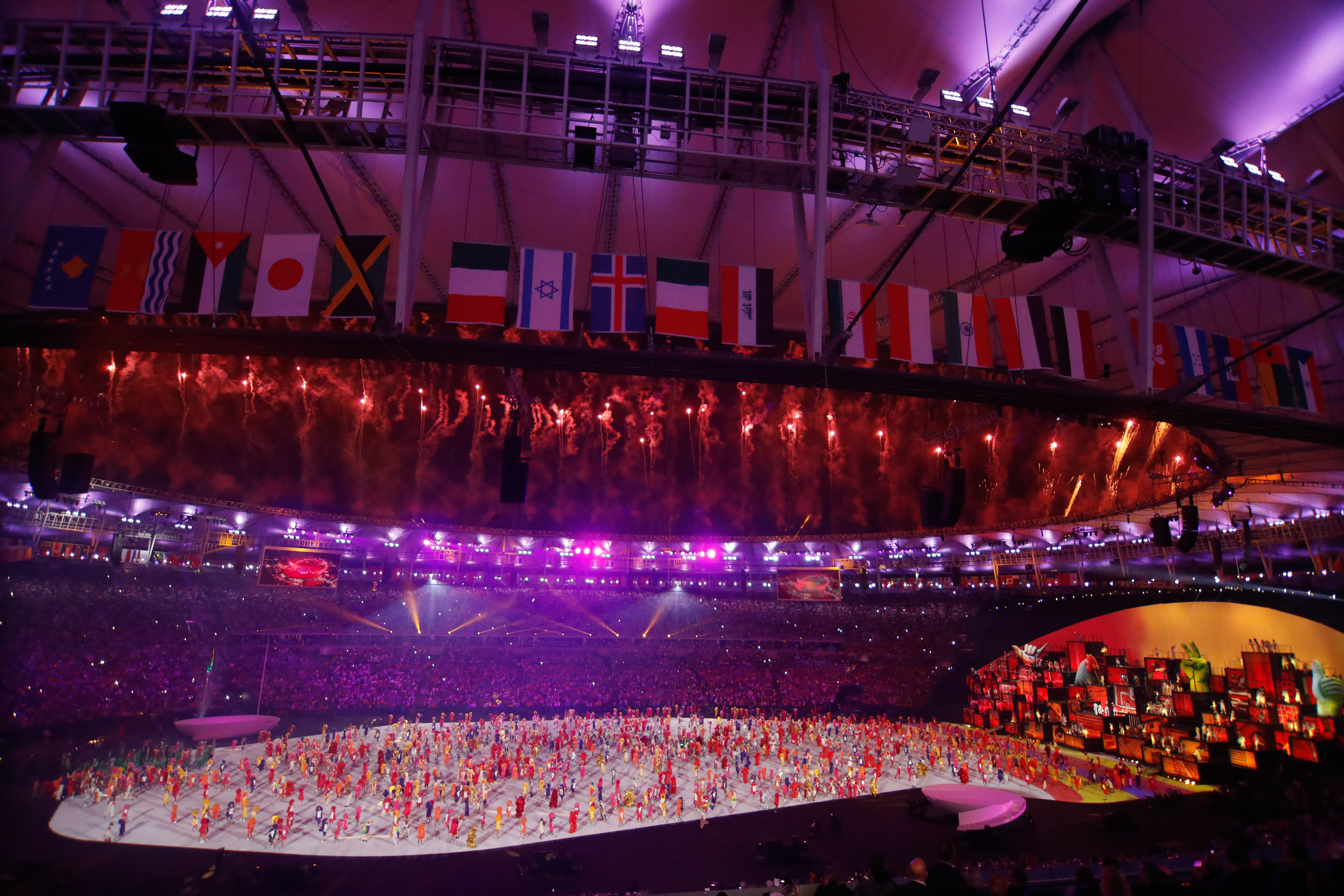 Rio de Janeiro - Cerimônia de abertura dos Jogos Olímpicos Rio 2016 no Estádio do Maracanã. (Fernando Frazão/Agência Brasil)